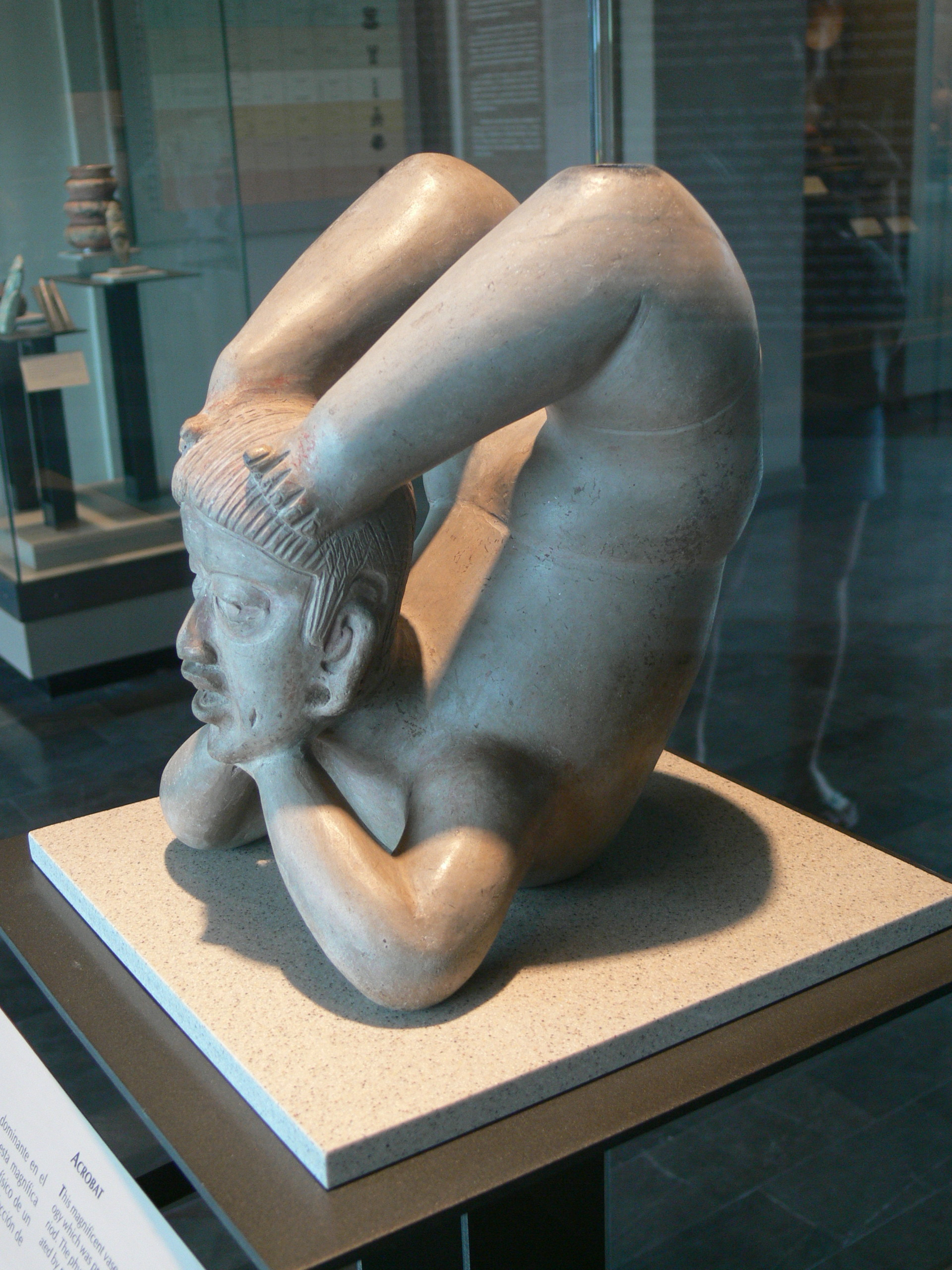 National Museum of Anthropology in Mexico City. Tlatilco-culture: Acrobat.